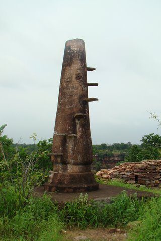 The Light house at Hinglaj Fort in Mandsaur district in Madhya Pradesh, India